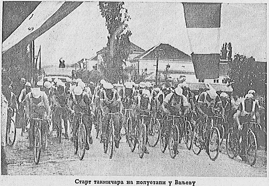 Stage 1 (Start of second half-stage in Valjevo, 1939 Tour of Serbia) 1939 Tour of Serbia, Stage 1 (Belgrade-Požega)